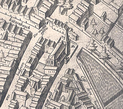 Old church "St. Maria Ablass", Cologne.